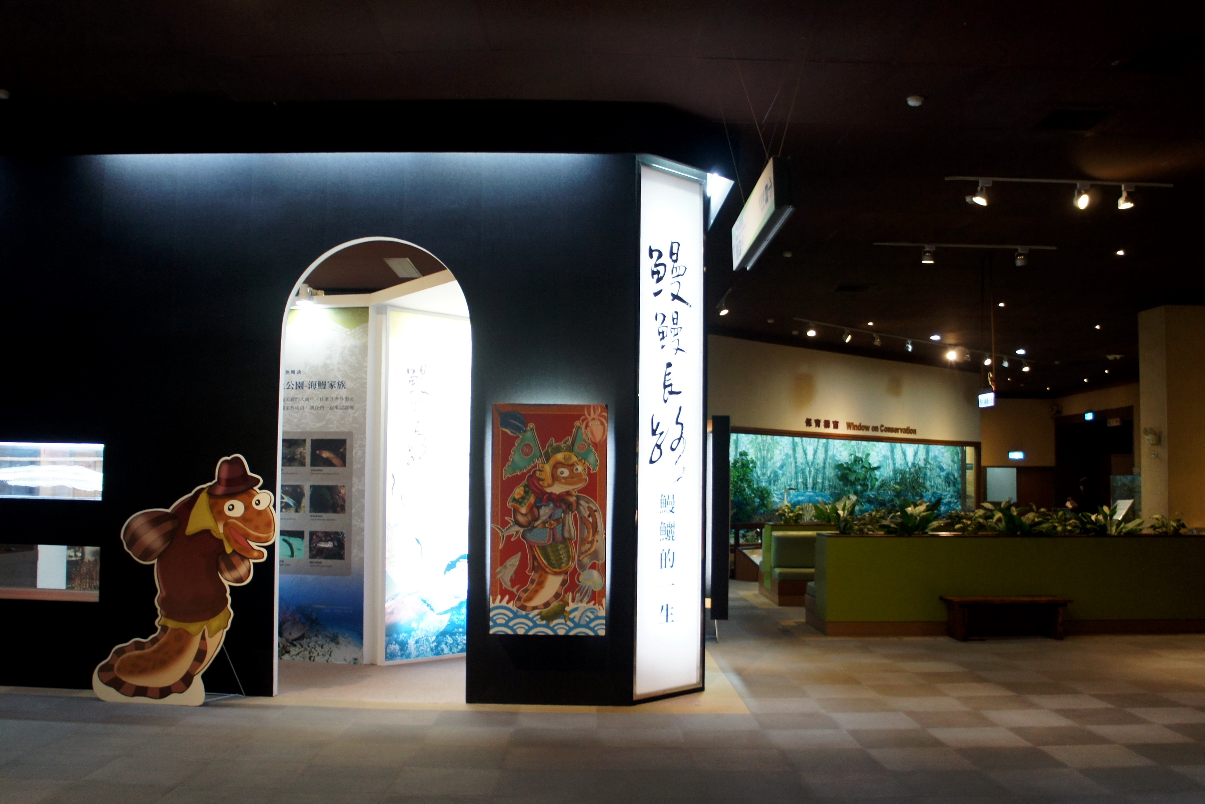 Special exhibition "The life history of the eel" at the Conservation Education Center at Endemic Species Research Institute (No.1, Minsheng East Road, Jiji Township, Nantou County)